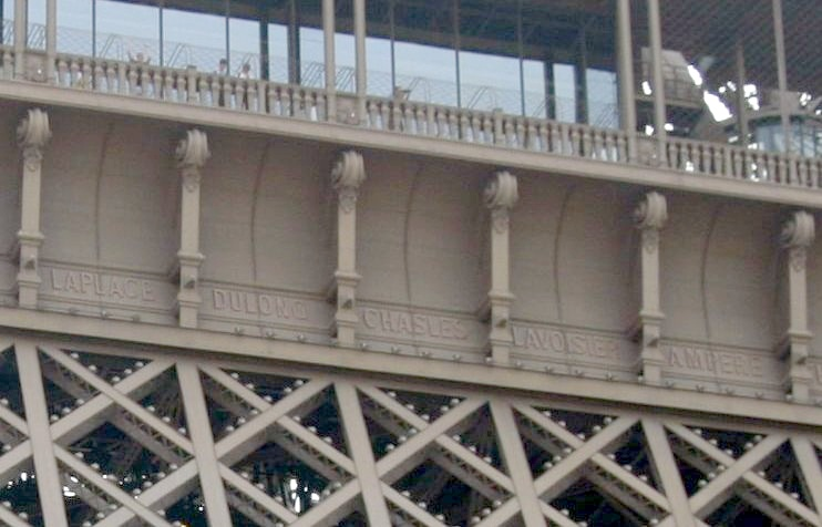 Cropped version of Image:Tour-Eiffel-IMG_1647.jpg, highlighting a small area.